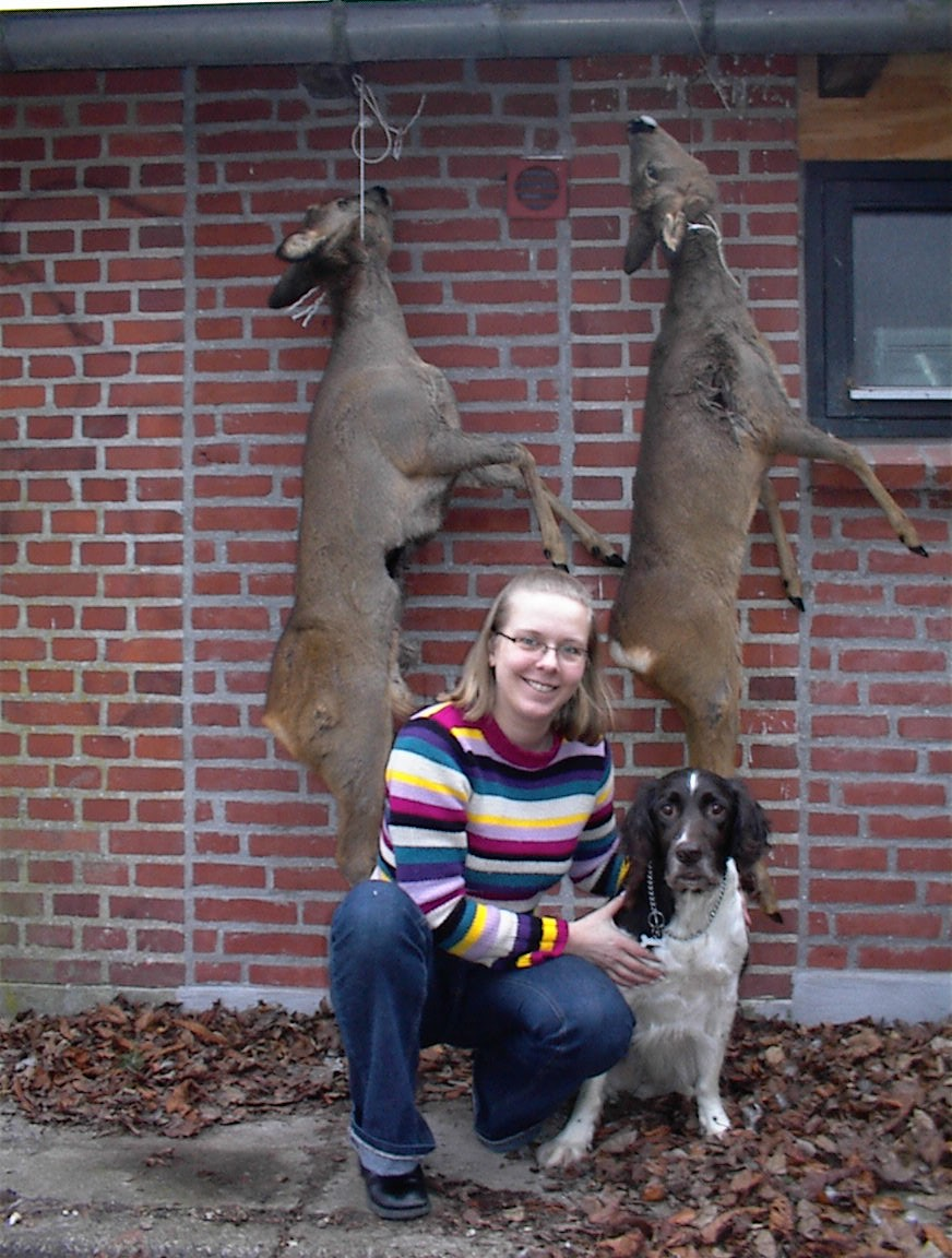 Dog of breed Kleiner Münsterländer